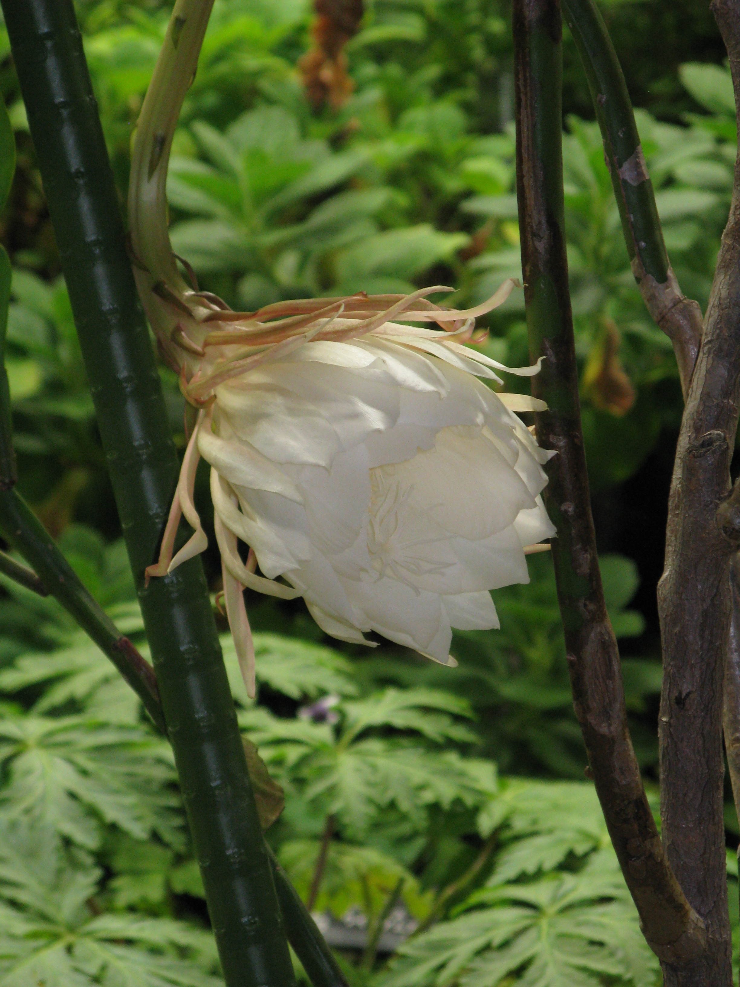 Scientific name Epiphyllum oxypetalum